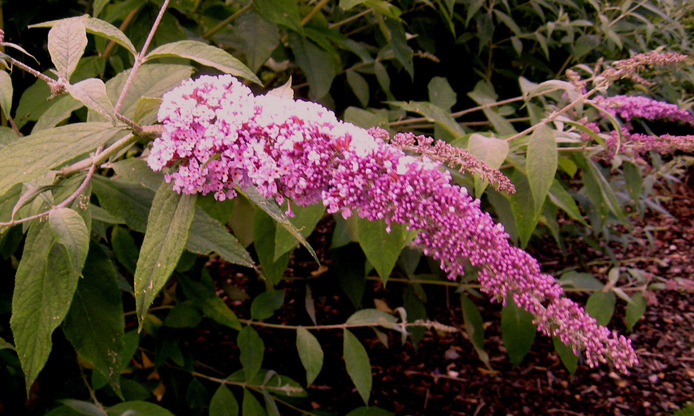 Photo of Buddleja davidii cultivar 'Pink Pearl' taken at Longstock Park, UK